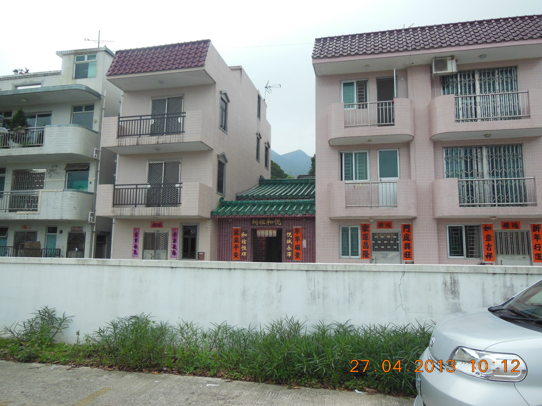 27-4-2013優悠,粉嶺78K到大塘湖, 馬尾下 ,丹竹坑, 公主山118m, 丹竹坑, (新屋仔), 龍馬道,麻笏文物徑,崇謙基督堂,安樂公園,粉嶺祥華邨;12km,4Hr,Ave3Km-Hr,3000Kcal,1.8H2o,MaxAlt123m,TotAsc295mTotDes307m,Weather-mostly Cloudy Yuek Wo Ancestral Hall (悅和祖祠) in San Uk Tsai